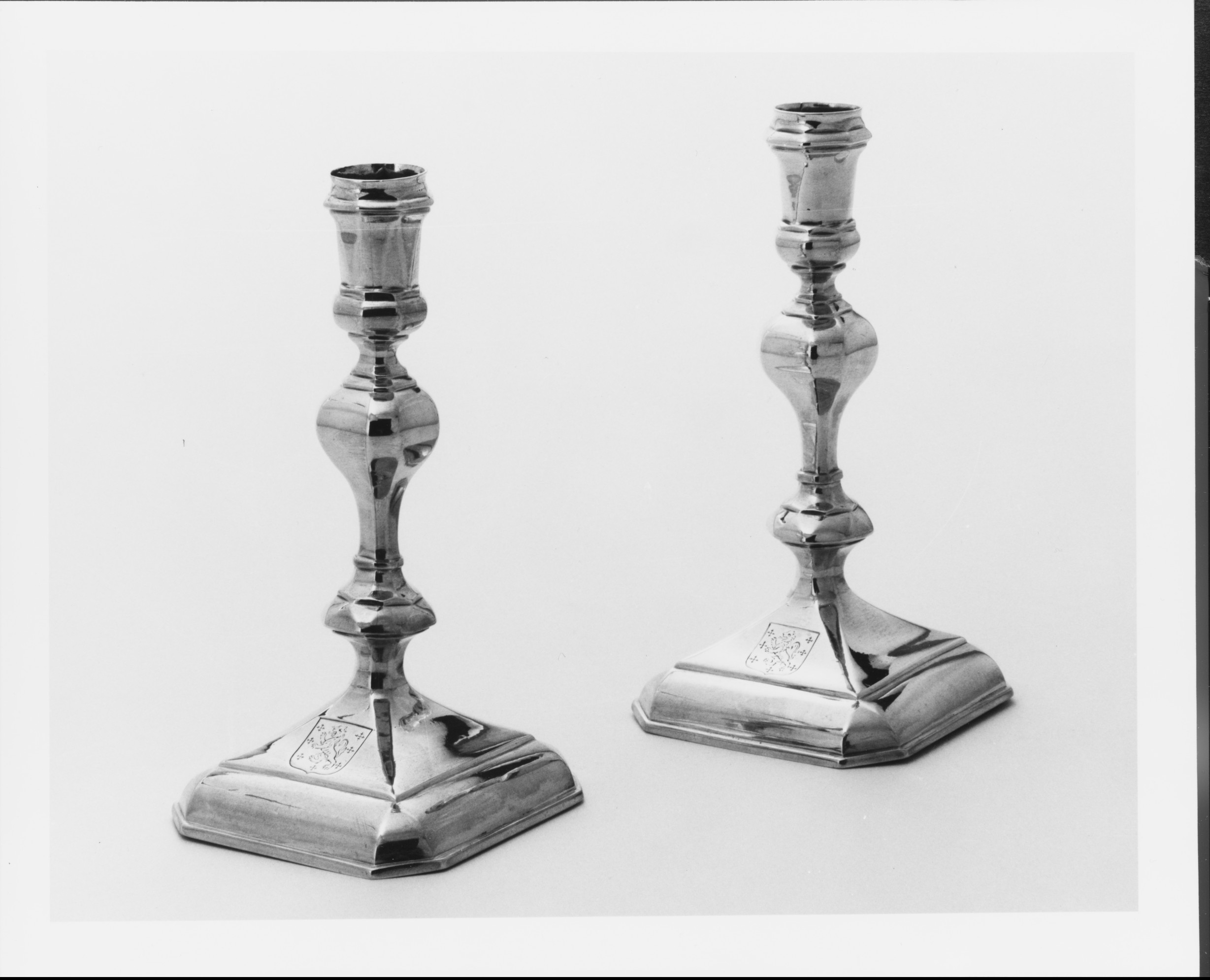 American; Candlestick; Silver